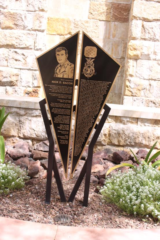 This file is free content and was taken by the family of Nick Bacon at the memorial site. It has no copyright and is thus free to be used as public domain/free use.